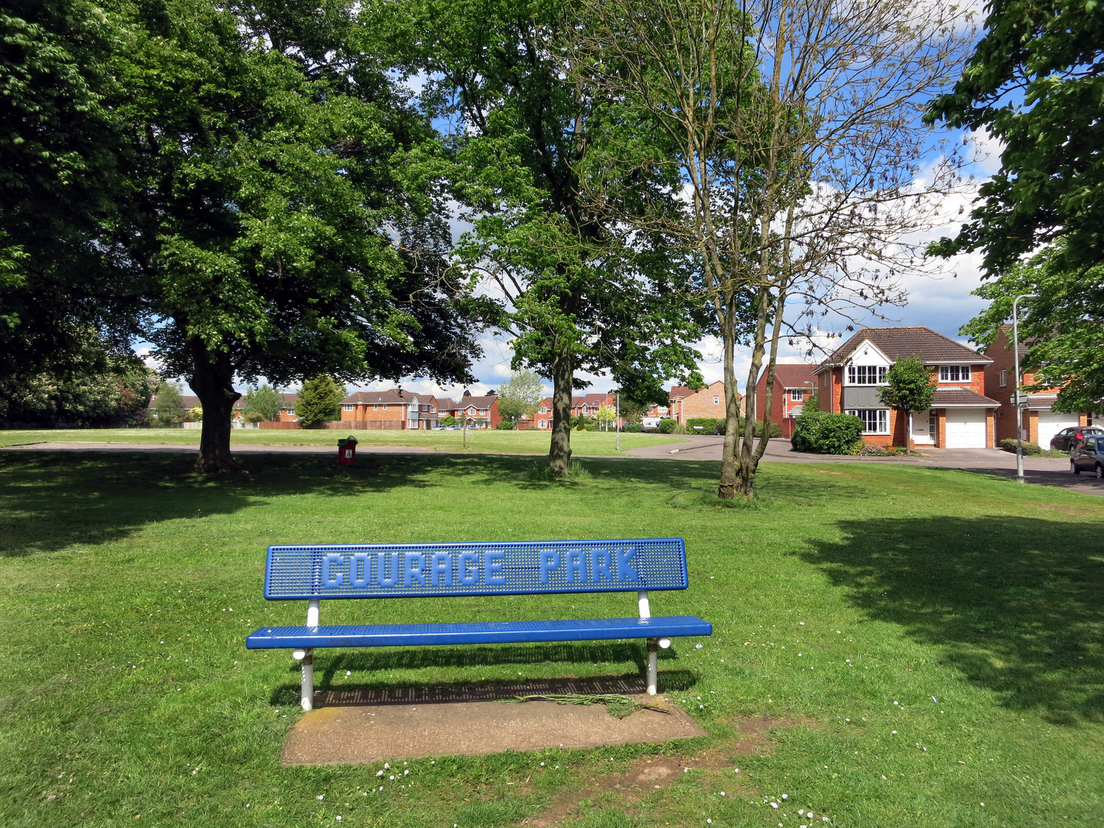 Courage Park. The Reading Borough Parks website now calls this Edenham Crescent Park, but the old name is obviously still in use from when it was the Courage Brewery sports ground.